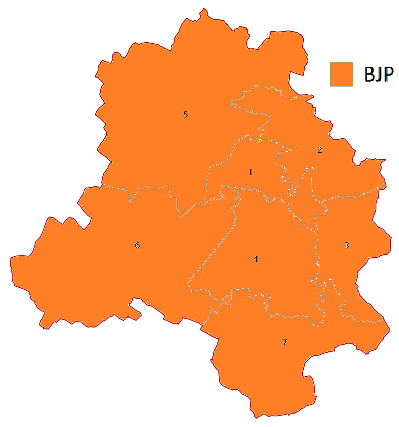 Seat Sharing of NDA in Delhi in General Election, 2019